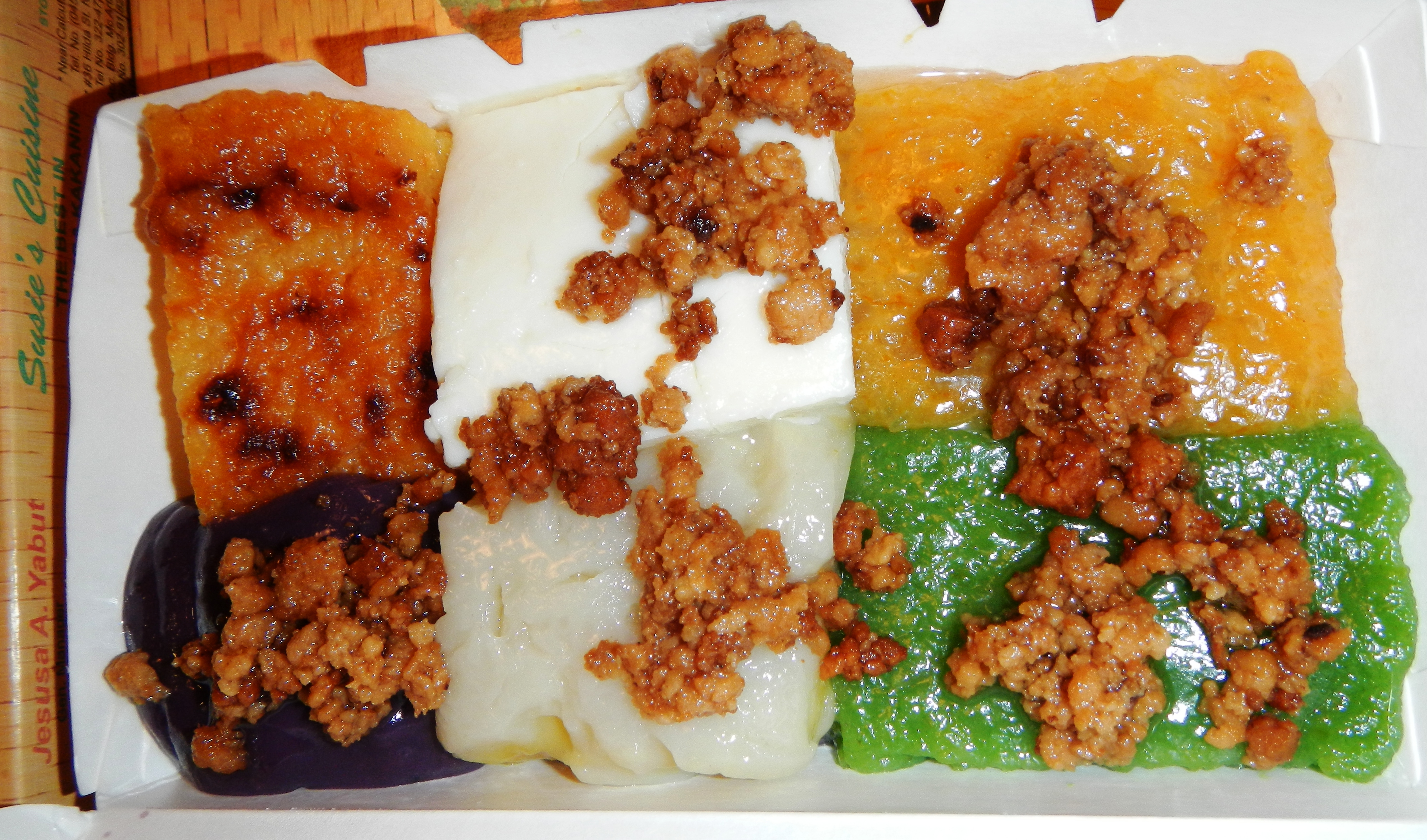 Kakanin of Susie's Pampanga